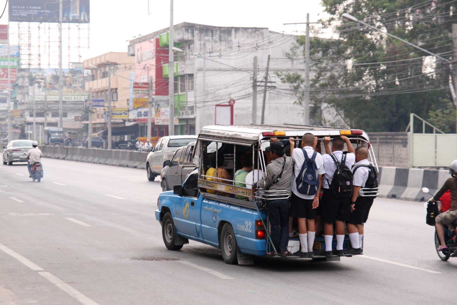 A crowded songthaew on Sukhumvit, Pattaya, Thailand (Mitsubishi L200)